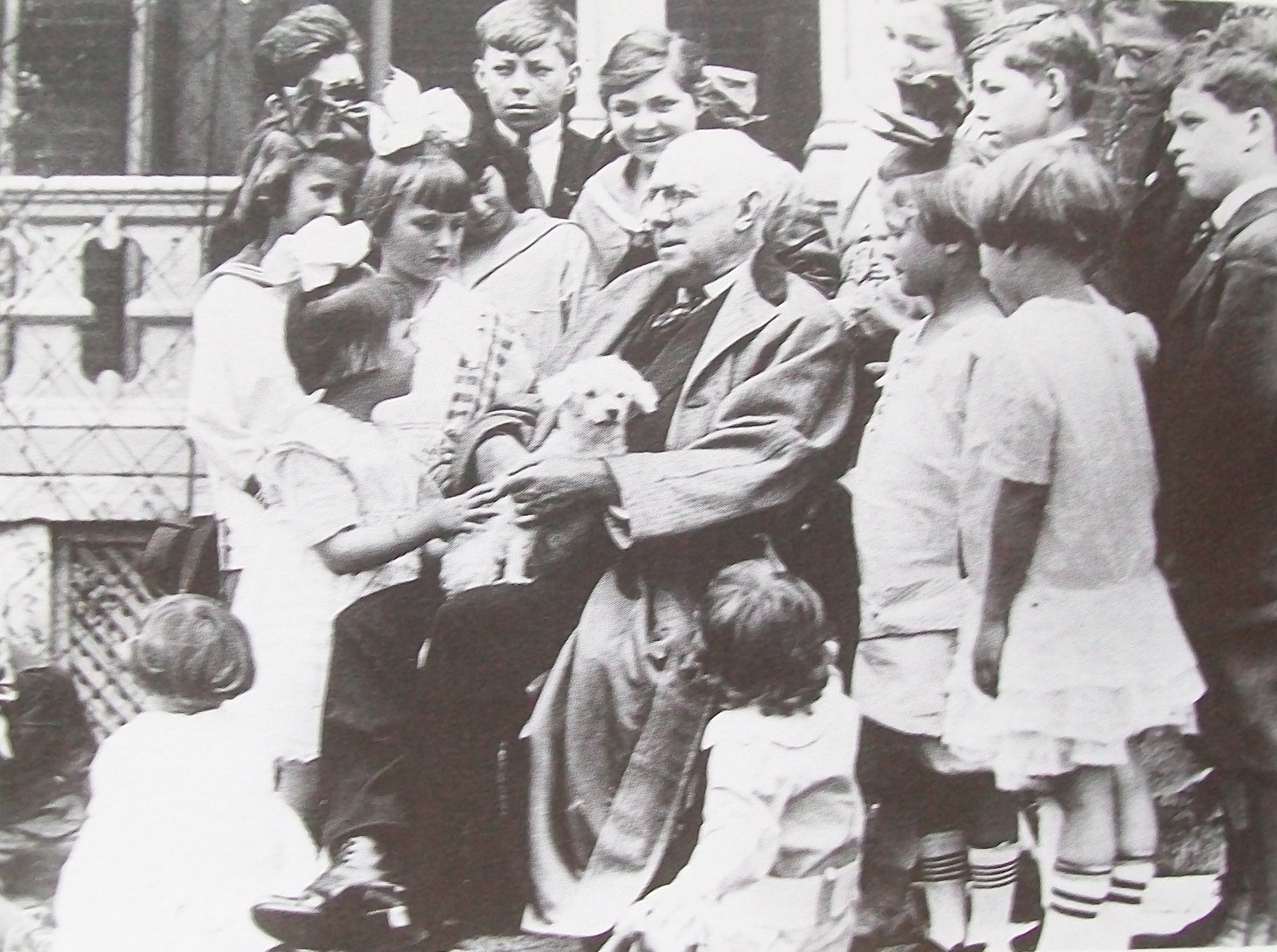 James Whitcomb Riley, known as the Children's Poet, poses with a group of children for a photo to be included in a book published for the Indiana state's centennial anniversary.